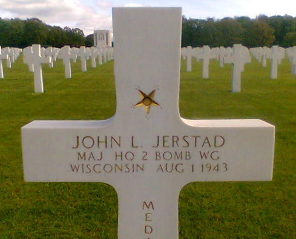 Gravestone of Major John Louis Jerstad at the Ardennes American Cemetery and Memorial in Neupré